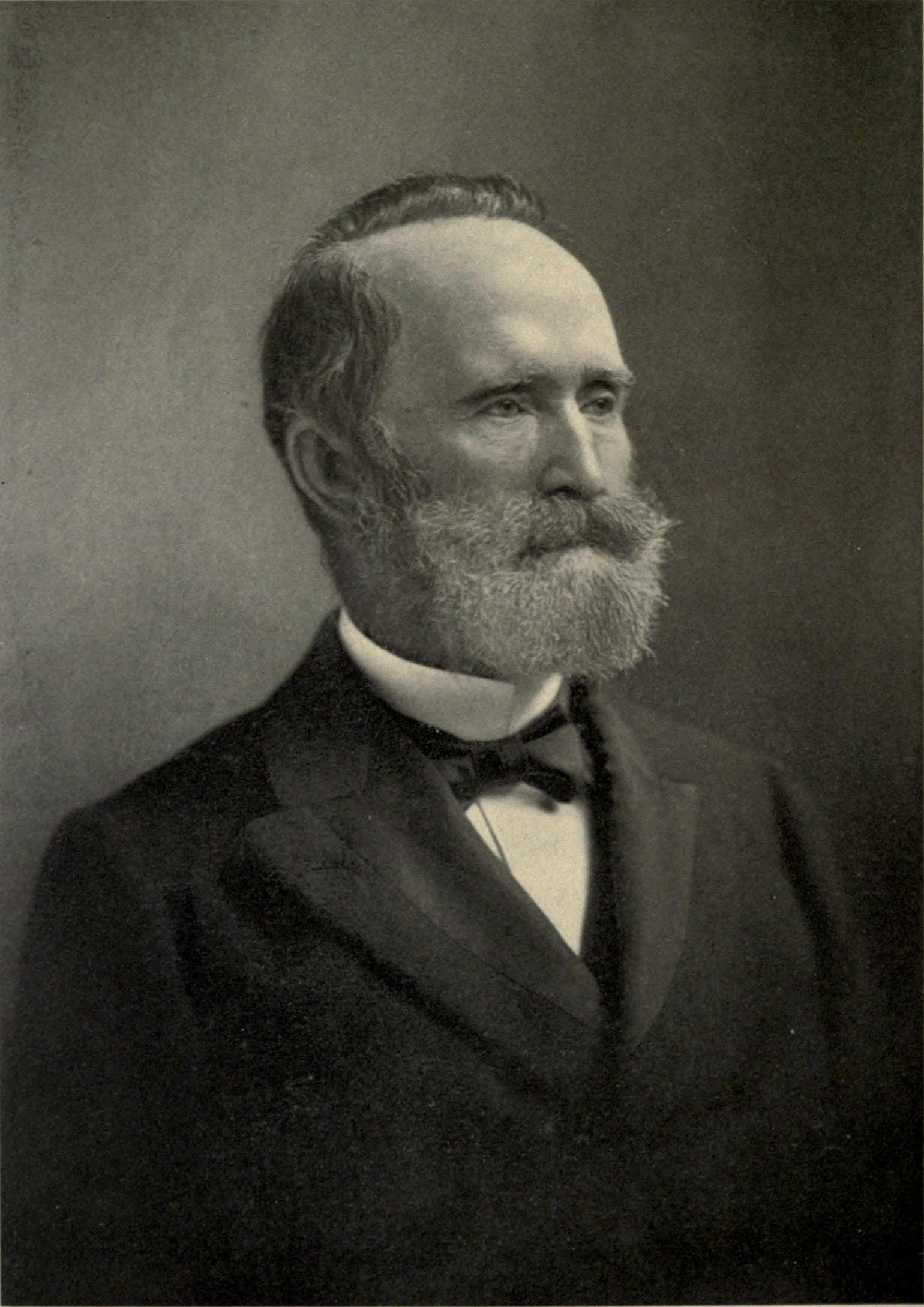 W. A. P. Martin